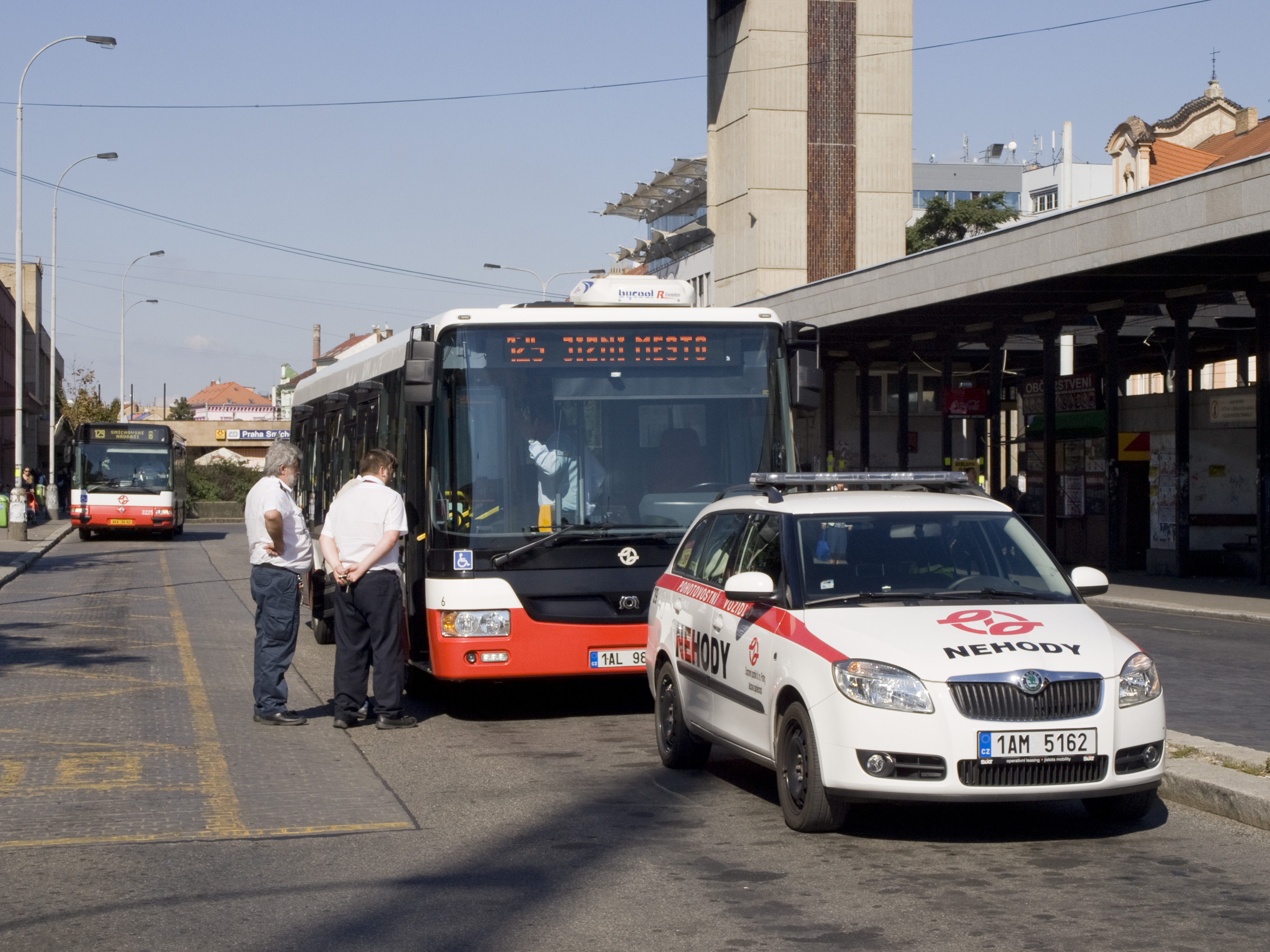 First ride of Prague express bus line 125, Smíchovské nádraží